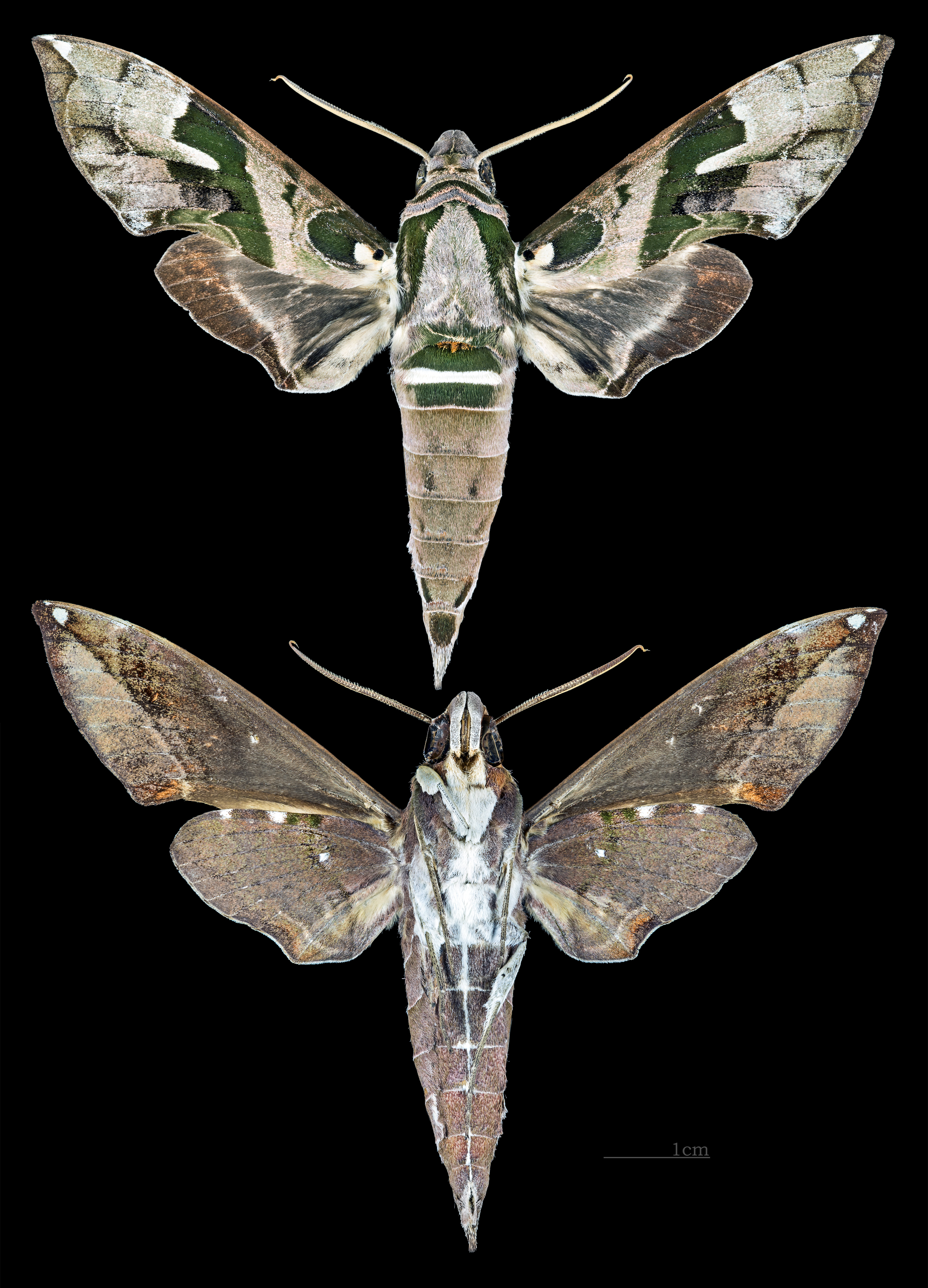 Daphnis dohertyi - Two views of same specimen Collection of the Mathematician Laurent Schwartz